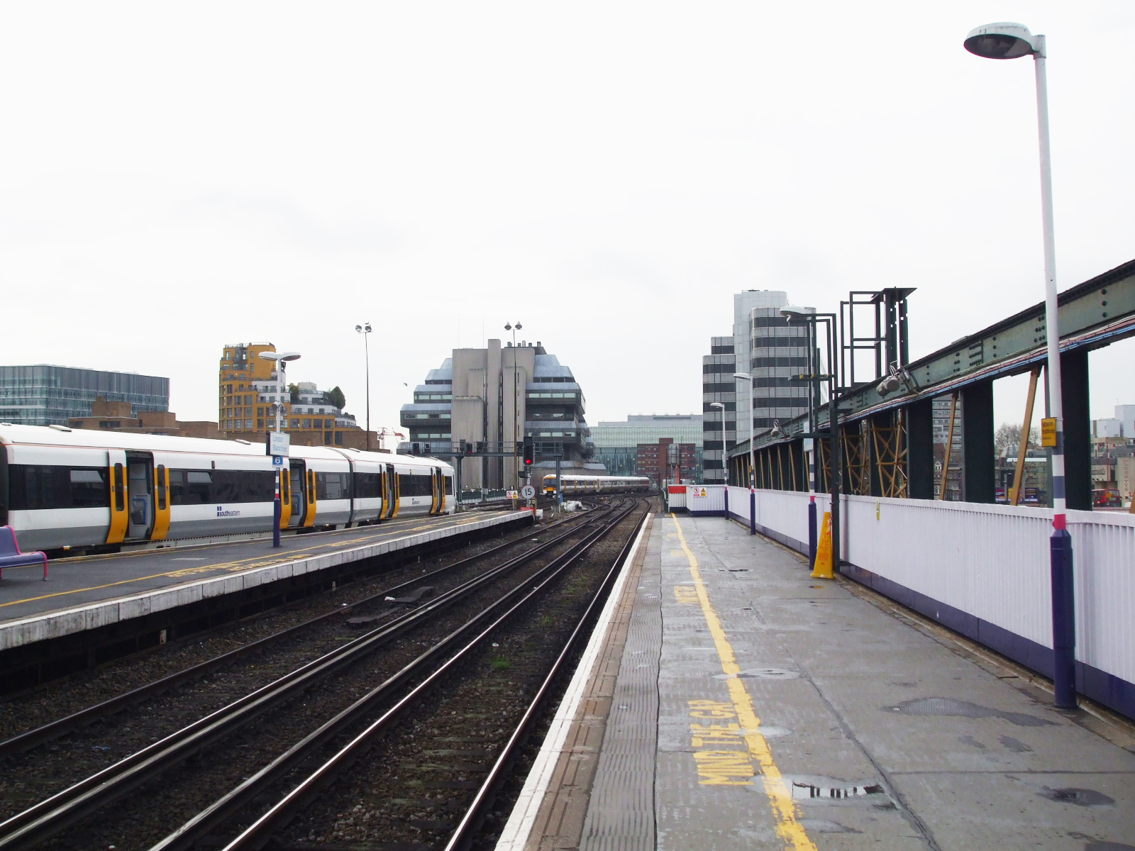 London Blackfriars railway station looking south from the through platforms 4 and 5. These and the three terminating platforms extend some way south over the River Thames.